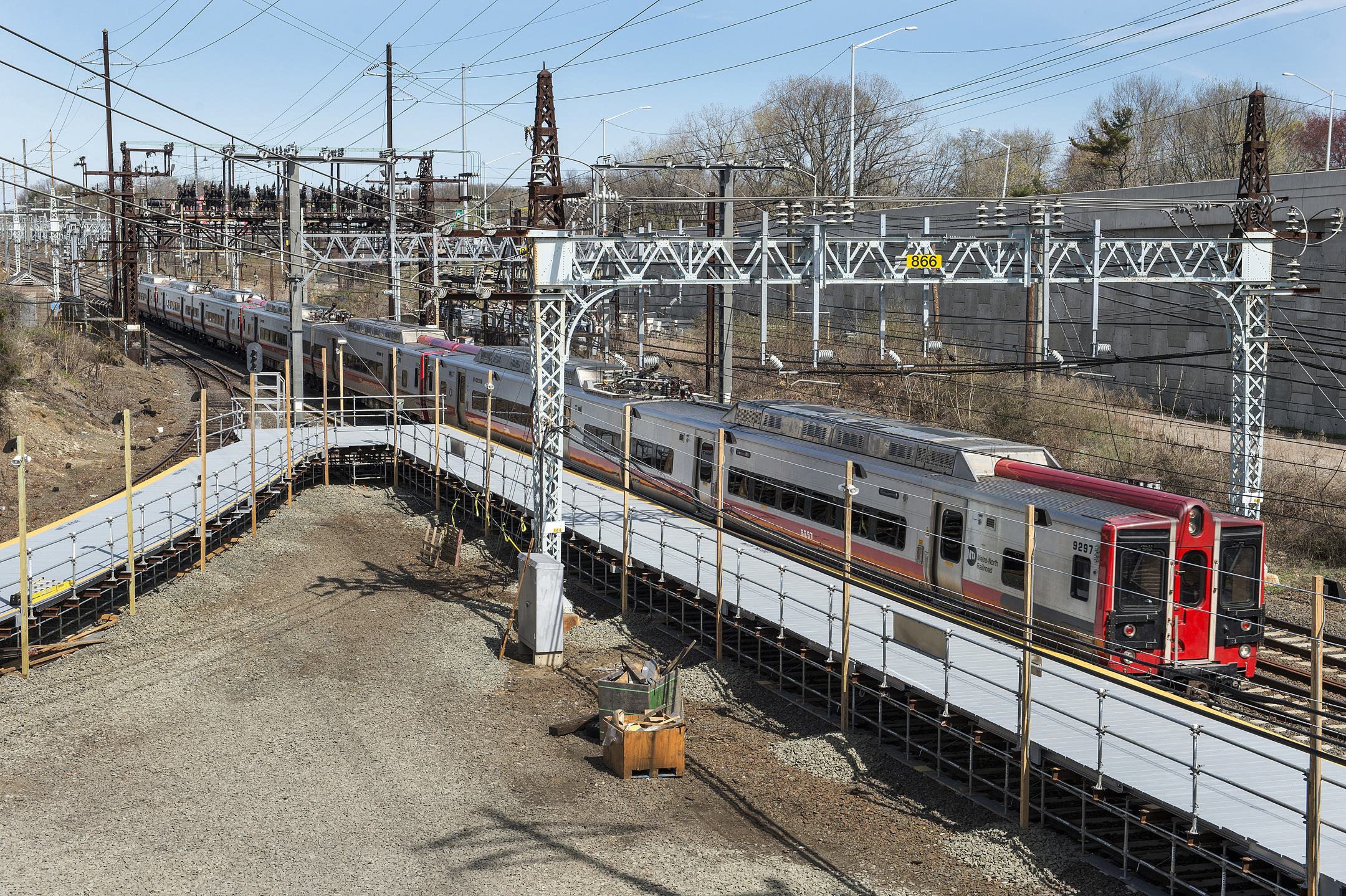 From May 4 to early October, 2015, while crews repair steel on the Devon Movable Bridge over the Housatonic River, Metro-North’s Waterbury Branch customers will change trains at a temporary station called Devon Transfer. On April 30, workers put the finishing touches on the station. Photo: Metropolitan Transportation Authority / Patrick Cashin